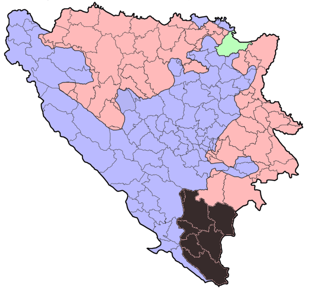 Municipalities in Bosnia and Herzegovina, Trebinje region (RS) highlighted